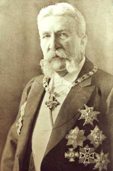 Image of Prince Gheorghe Grigore Cantacuzino (1837 - 1913), Romanian politician, Prime Minister of Romania from 1899 to 1900 and from 1906 to 1907